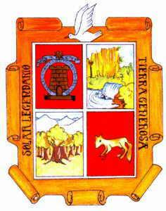 General Cepeda, Coahila, Mexico coat of arms